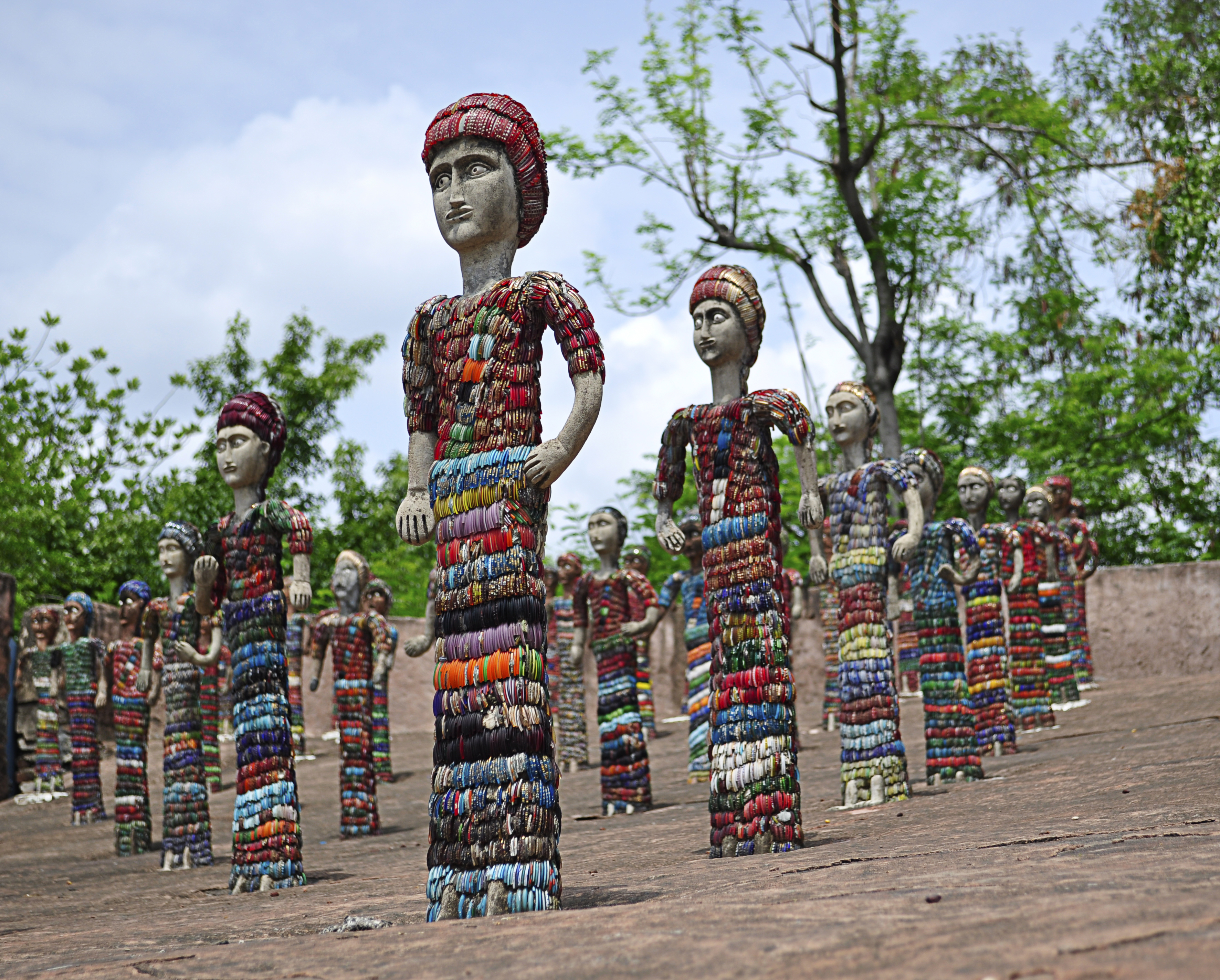 The picture was taken in Rock Garden, Chandigarh in India. It statues of the people are built using waste materials.